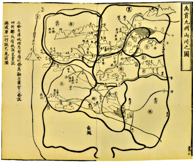 an old map of China published in 1185